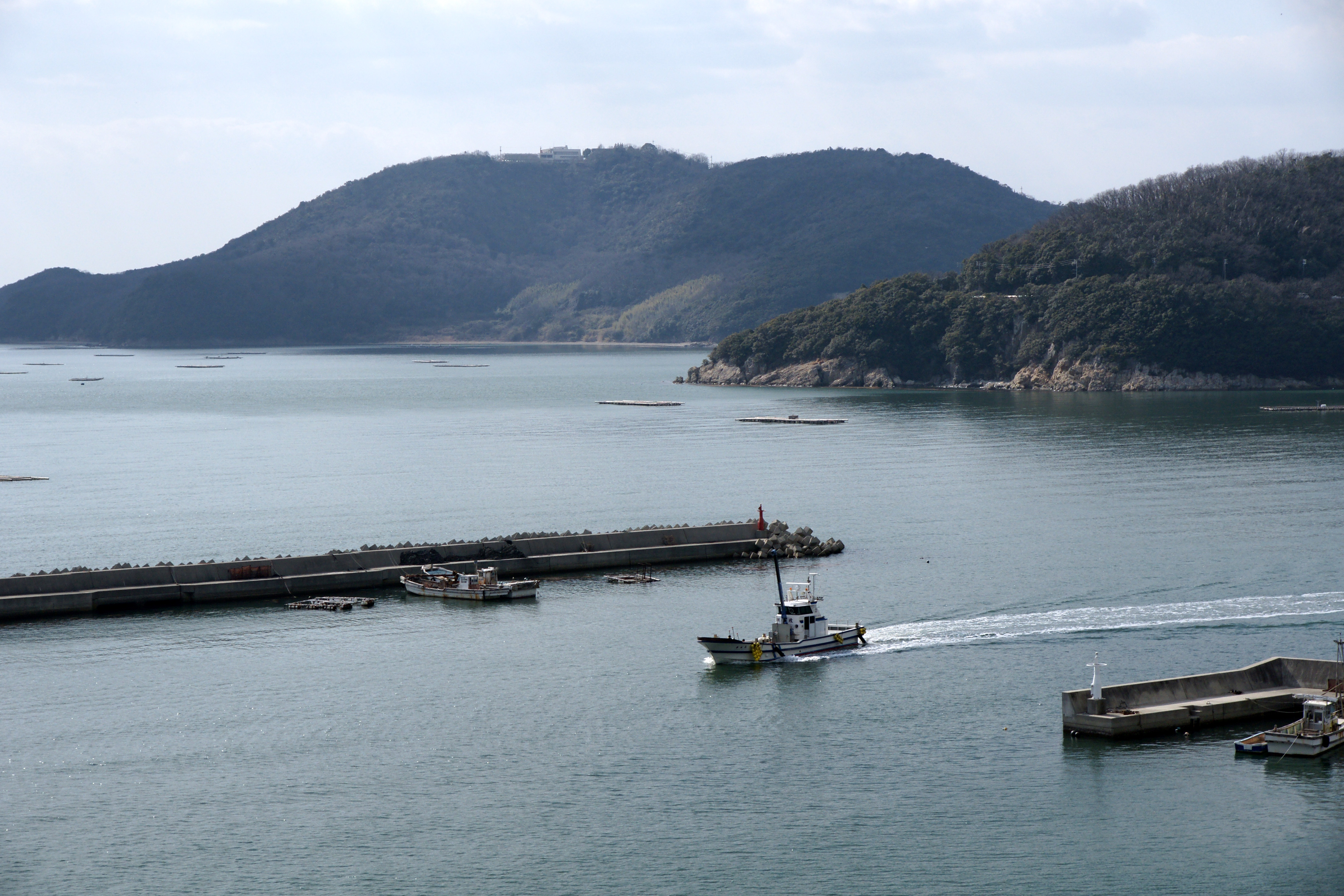 Murotsu Port in Murotsu, Tatsuno, Hyogo prefecture, Japan